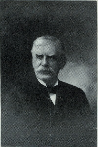 Thomas R. Bard, United States Senator from California (1904)